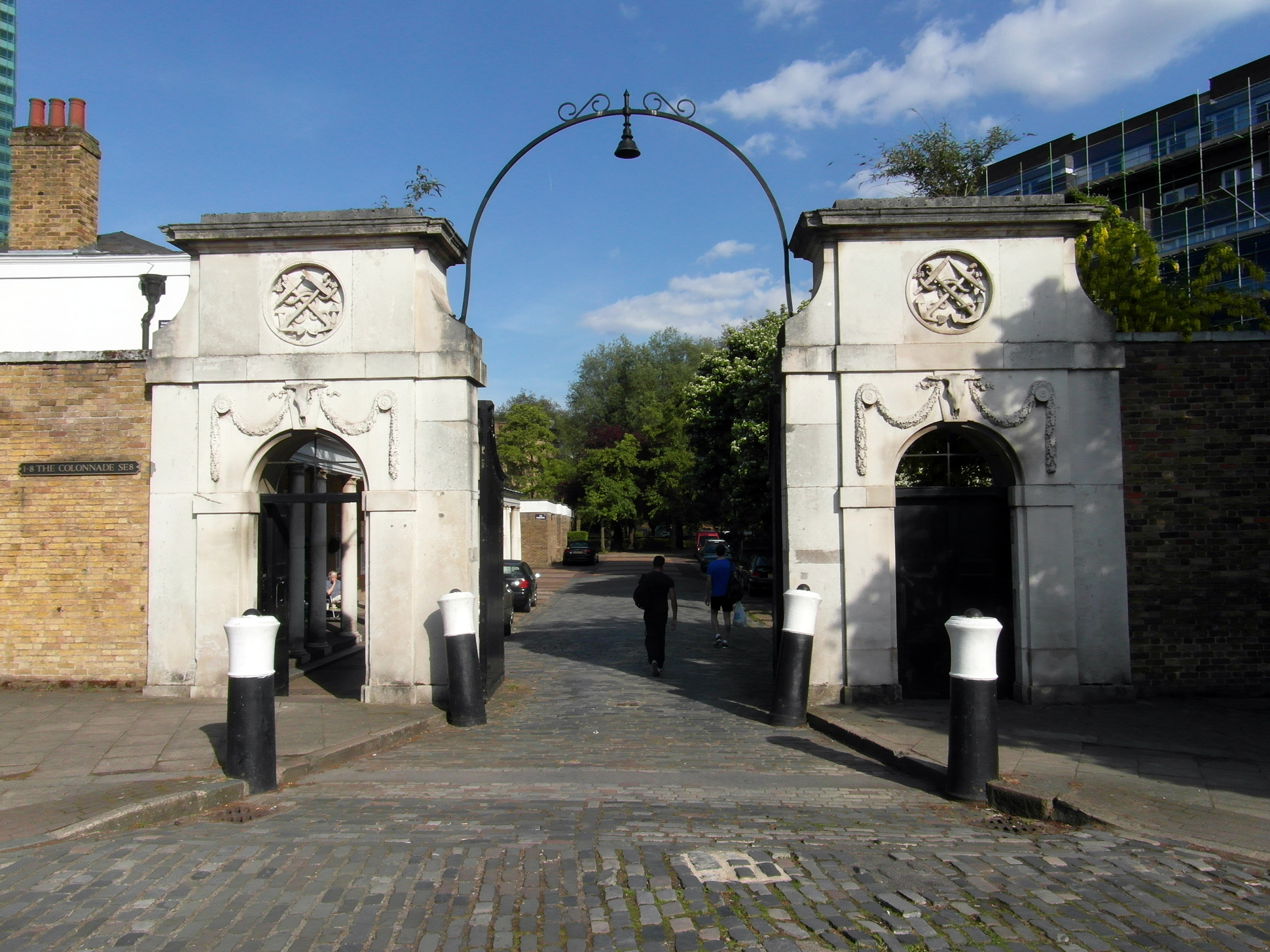 Circa 1768 probably by Samuel Wyatt. At either side of central entrance way, with wood double gates, an ornamental stone arch holding 6-panel door.